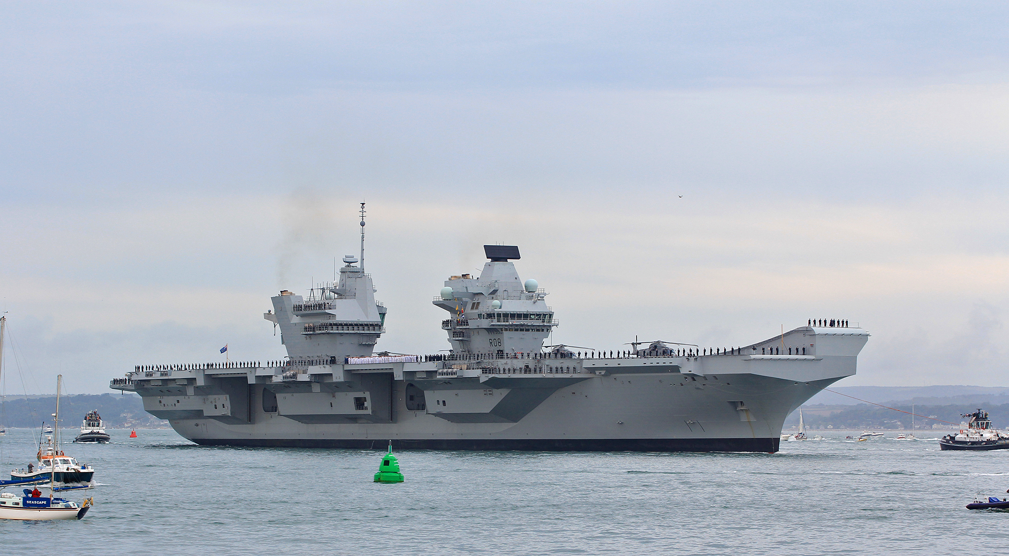 Queen Elizabeth class aircraft carrier HMS Queen Elizabeth (RO8) entering Portsmouth Naval Base for the first time on her delivery voyage, 16 August 2017, and flying not the naval White Ensign, but the Blue Ensign, because the vessel was not yet a commissioned warship of the Royal Navy. Image uploaded by me User:George.Hutchinson from a photograph taken by and supplied by Brian Burnell. Wikipedia editors are reminded that the copyright remains with the photographer, and that the terms of the GFDL/CC-BY-SA license that allow editors to reuse this image apply to Wikipedia editors also, as they do to other reusers of this image. Breaches of the licence terms are not only unlawful, but are also antisocial, in that breaches discourage photographers from making their images freely available to everyone without payment. Non-Wikipedia users are requested to advise Brian Burnell of its use other than on Wikipedia.